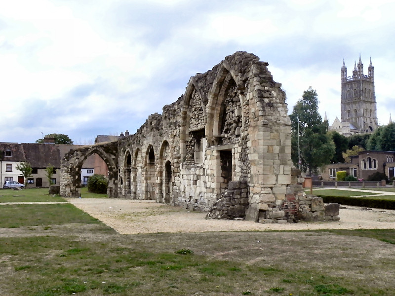 St Oswald's Priory Wall, near to Gloucester, Gloucestershire, Great Britain. The standing wall on this site incorporates the remnants of the church built around 900AD by ?hel? daughter of Alfred the Great. St Oswald�s became an Augustinian Priory in 1152. The priory was dissolved in 1537 but the site was still used as a small church until 1656 when it was pulled down except for this wall which still survives.